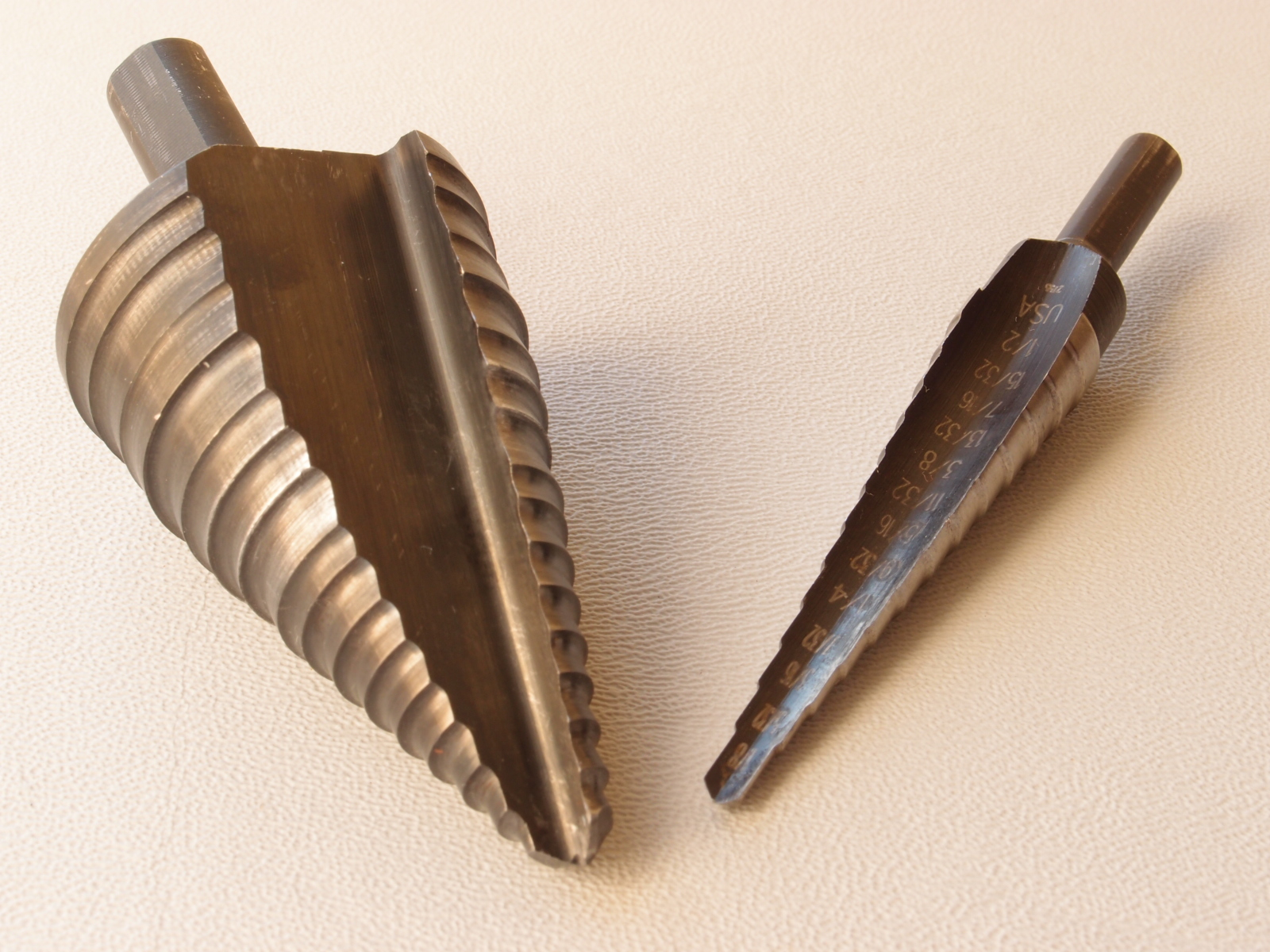 Two "unibit" drill bits, the smaller one ranging from 1/8" to 1/2" and the larger one scaling to about twice that size.